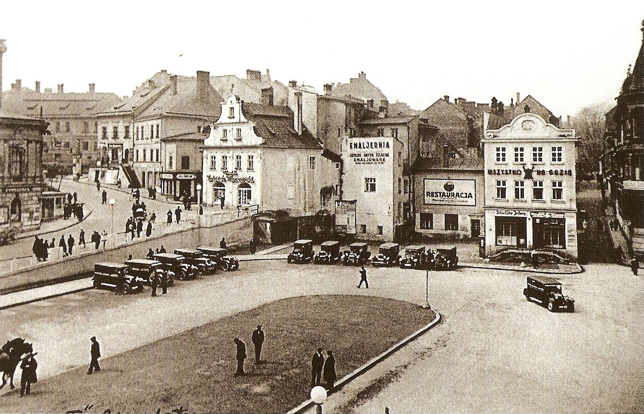 Bolesław Chrobry Square in Bielsko-Biała, Poland in 1930s (before construction of modern building of Komunalna Kasa Oszczędności)